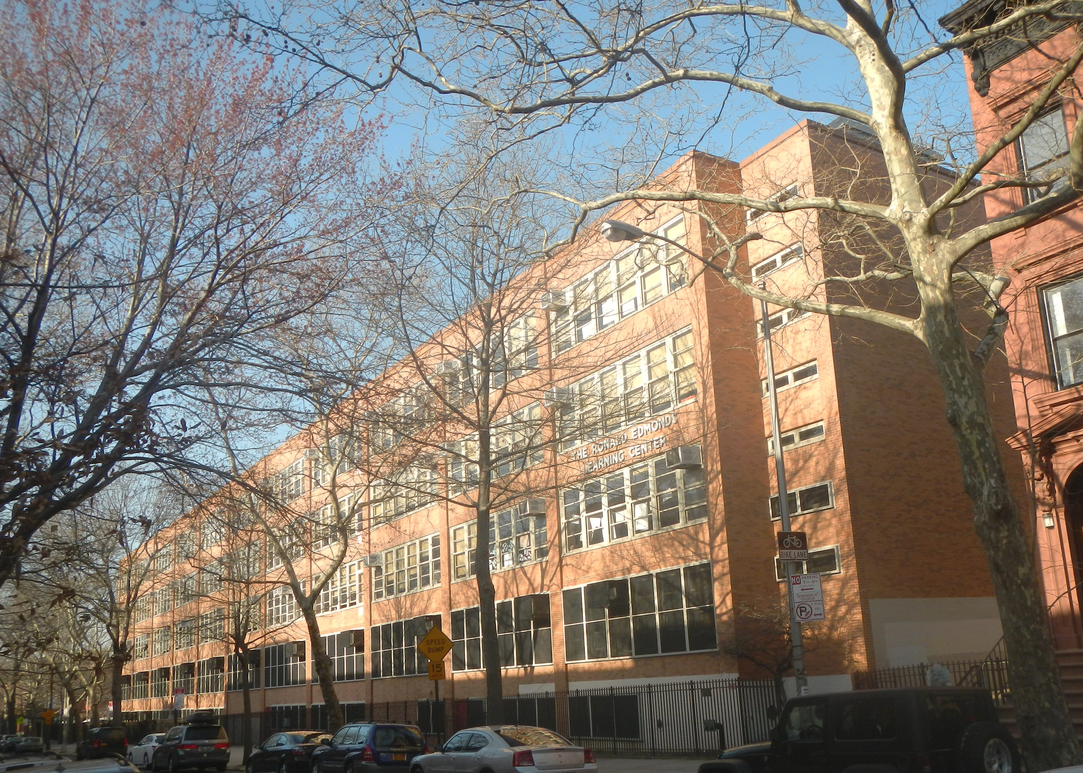 Looking northeast across Carlton Avenue at MS 113 on a sunny late afternoon.